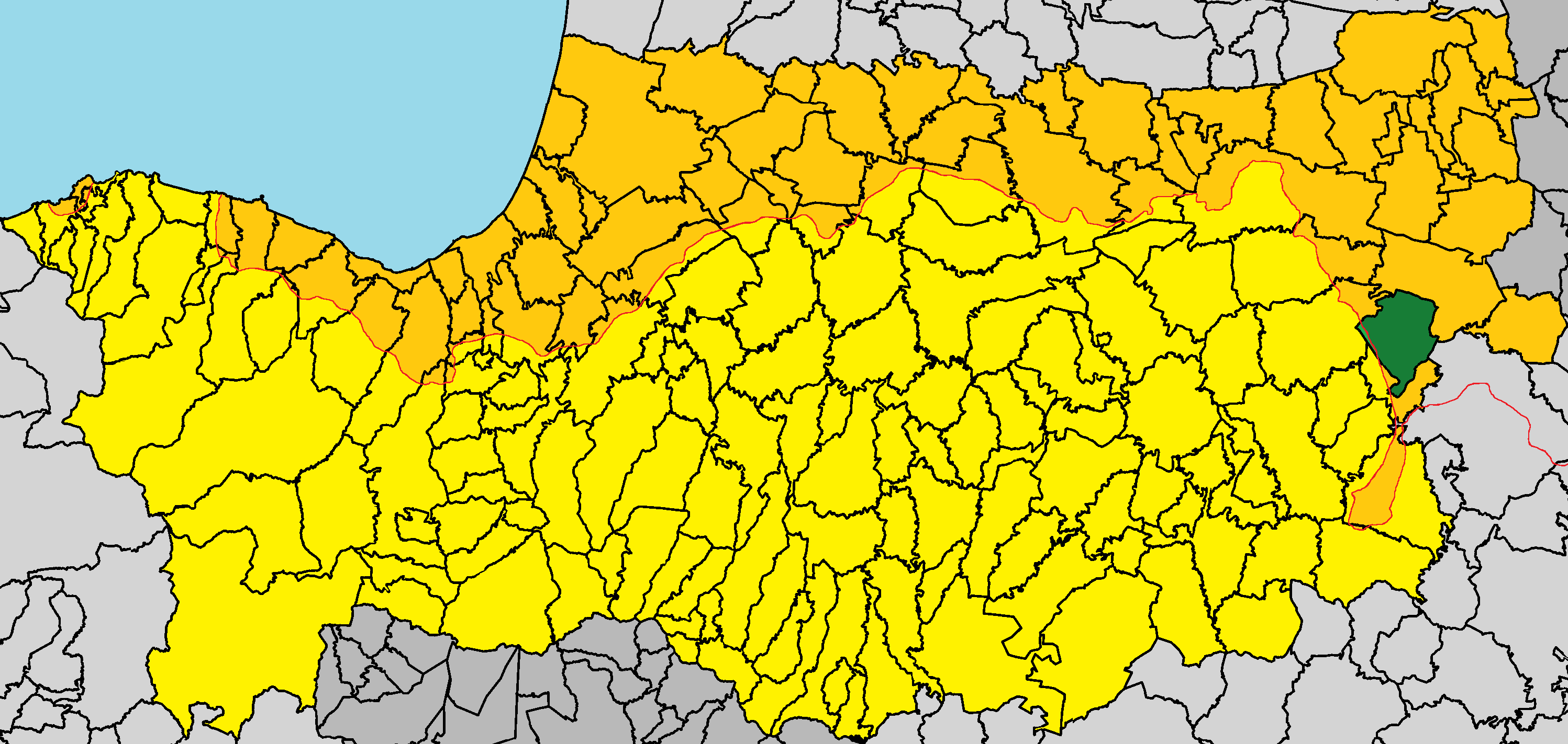 Margo in Nicosia District (de jure).